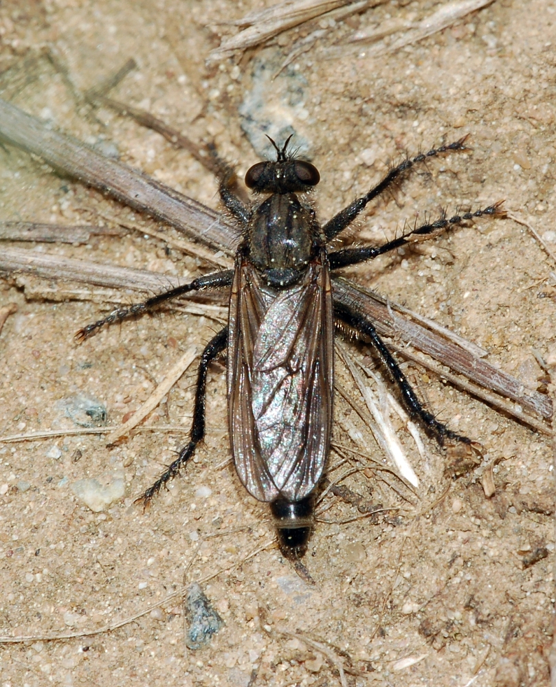 Lasiopogon cinctus, female, Darmstadt, Germany